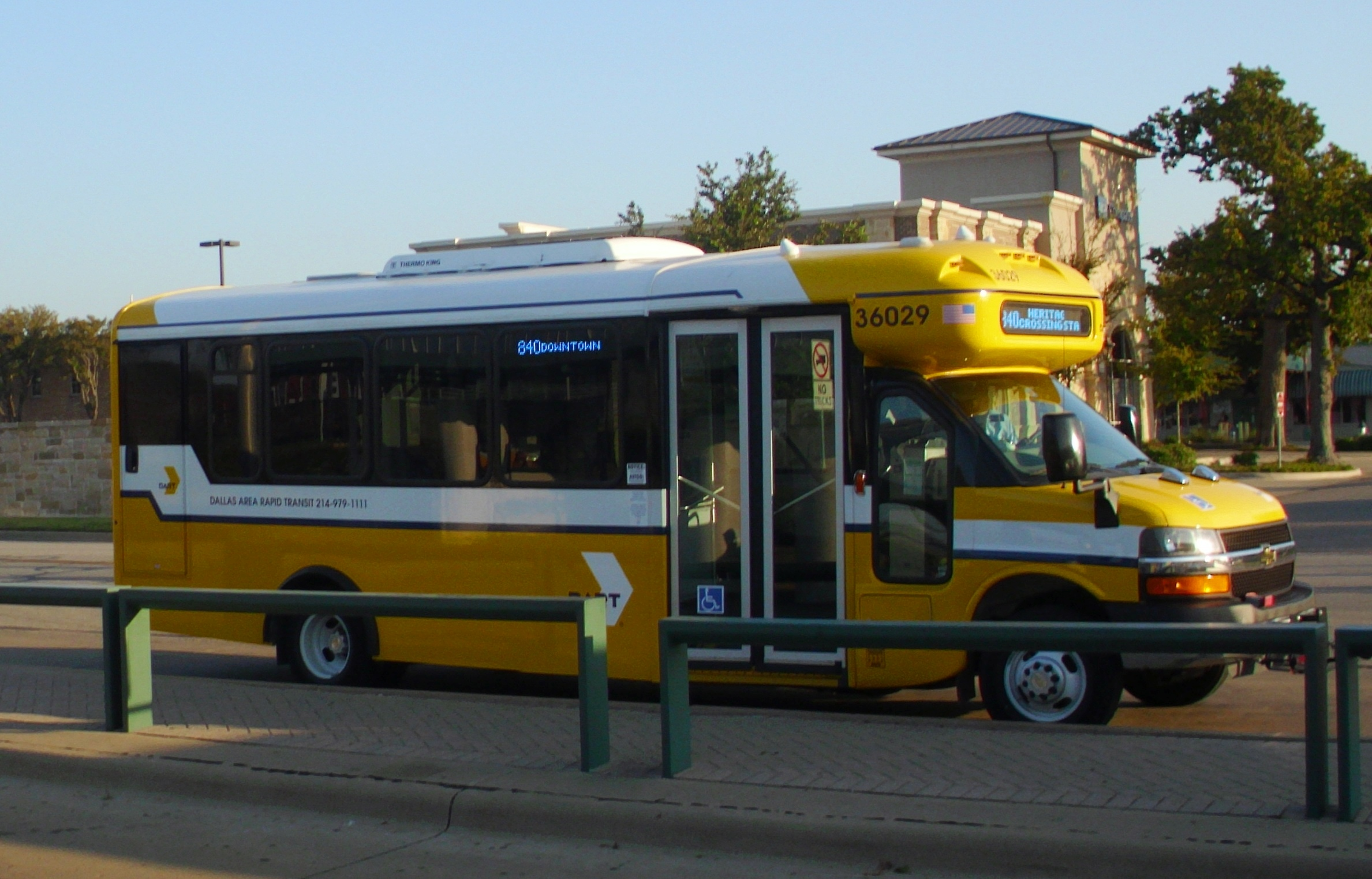 Dallas Area Rapid Transit's new small buses introduced in October 2012 for On-call & Flex routes as well as less-traveled bus routes. This one is parked at Downtown Irving/Heritage Crossing Station.